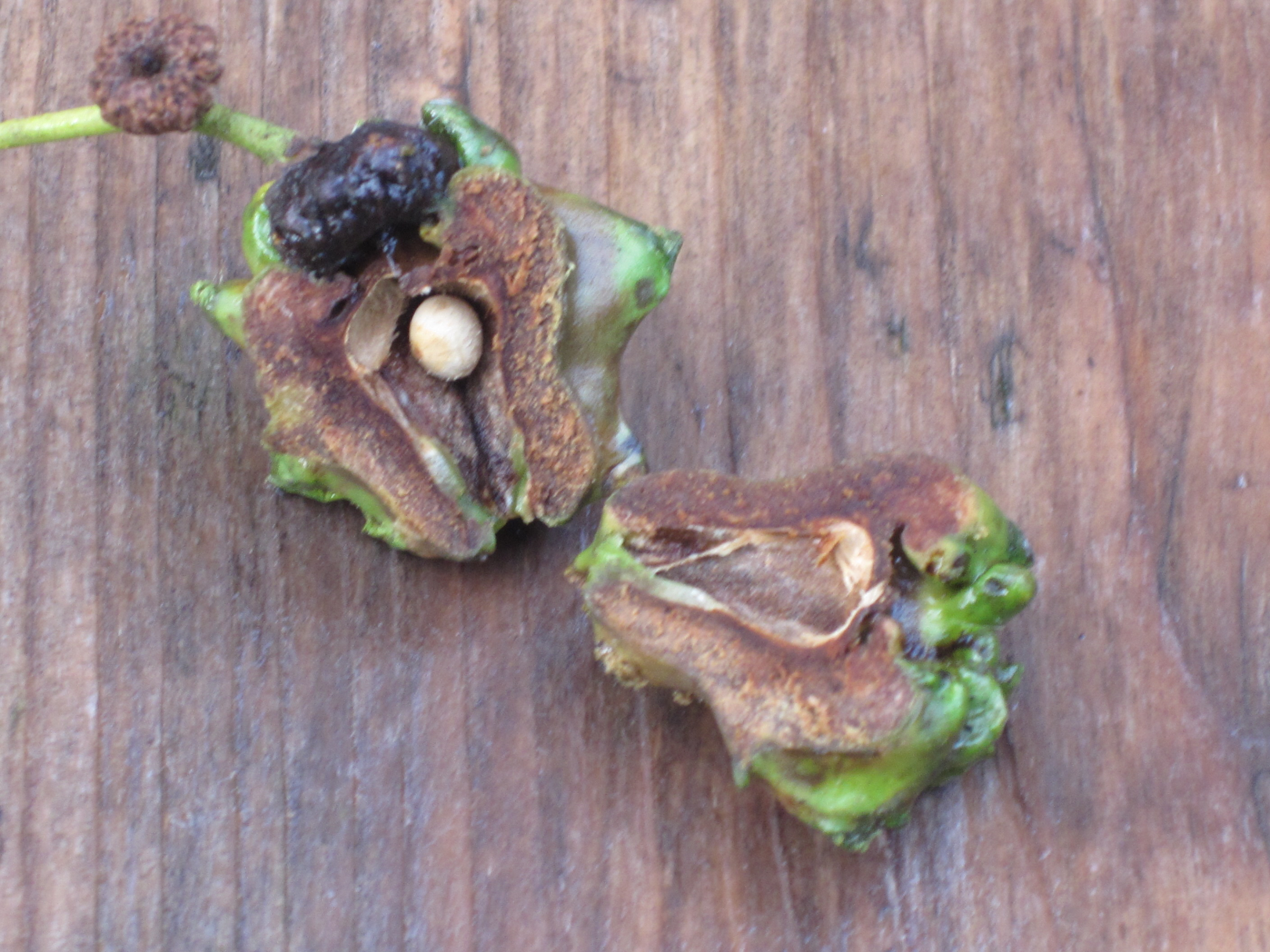 Andricus quercuscalicis (gall wasp) larva inside Knopper gall, Arnhem, the Netherlands